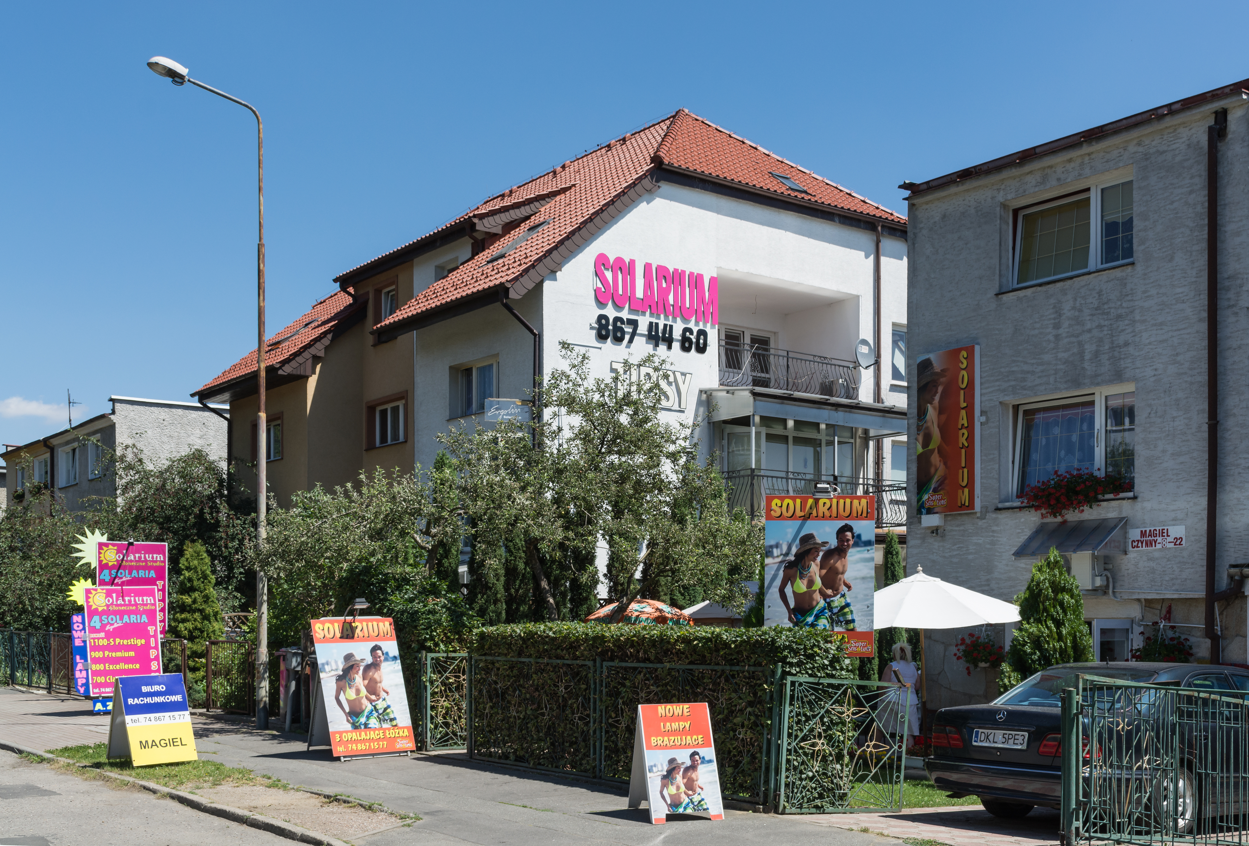 Anny Zelenay Street in Kłodzko